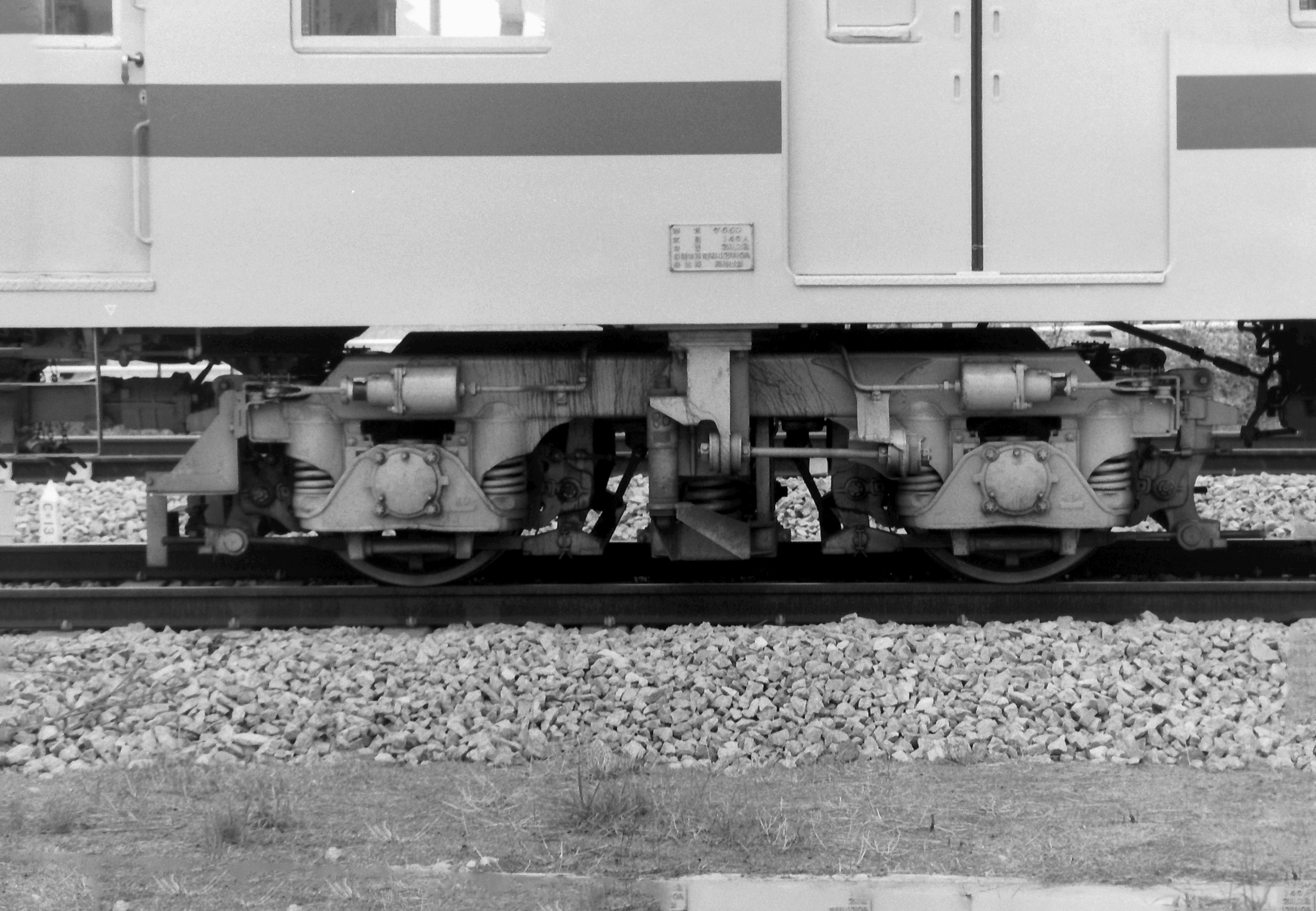 Kawasaki 622 bogie truck on Nishitetsu 668